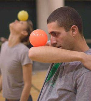 Contact juggling Subjects are Greg Maldonado and Remy Holwick. Photograph taken by Ryan K Baker and uploaded by Ryan K Baker.